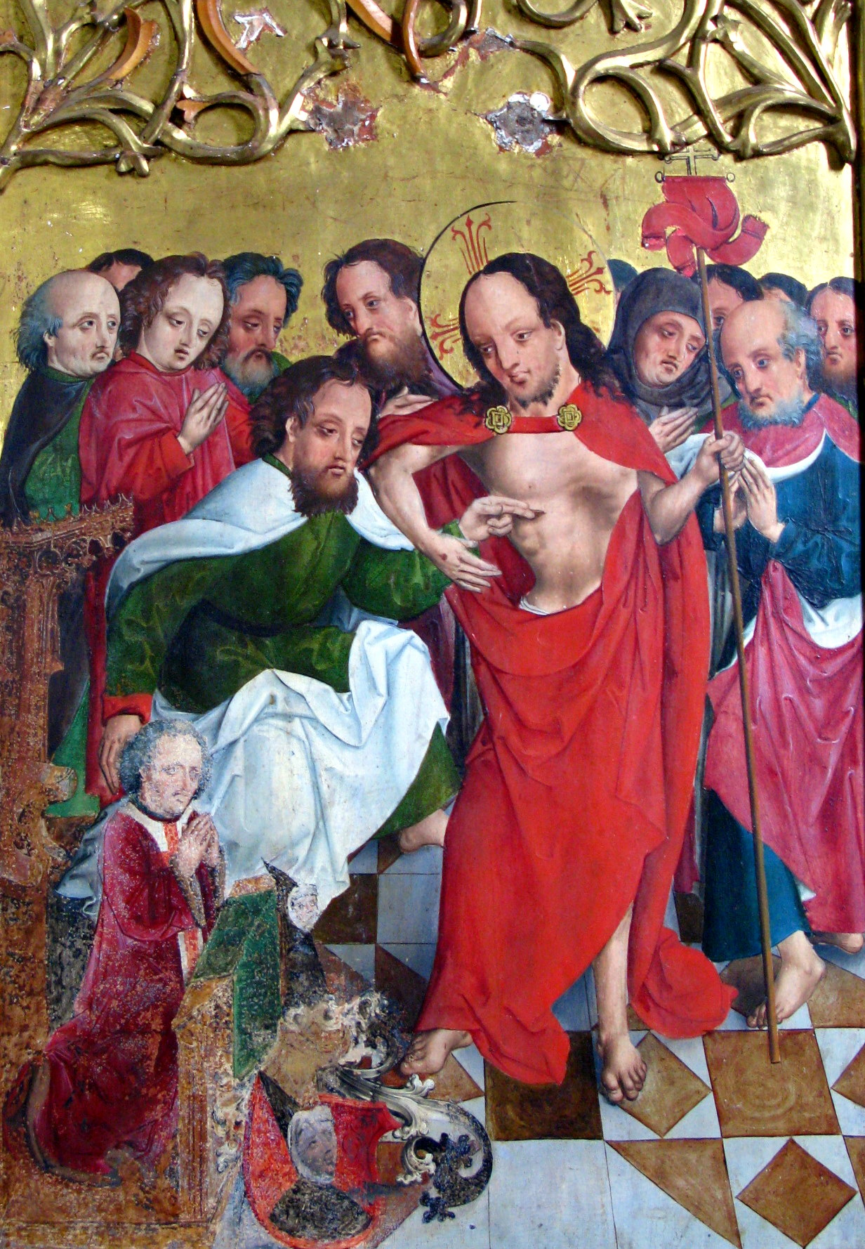 Altar of Lieseregg in the community of Seeboden / Spittal an der Drau / Carinthia / Austria / EU. The picture shows the lower picture of the left wing. The display shows the Doubting Thomas. On the left side in the corner the founder of the altar Johann Siebenhirter kneeling, with his family coat of arms. The altar is attributed to an unknown "Master of Lieseregg. Unique in Carinthia is a grotesque representation of the figures. While the faces uniformly, are rather narrow, presented in the same size, corresponding to physical proportions and the attitude is not the natural anatomy.